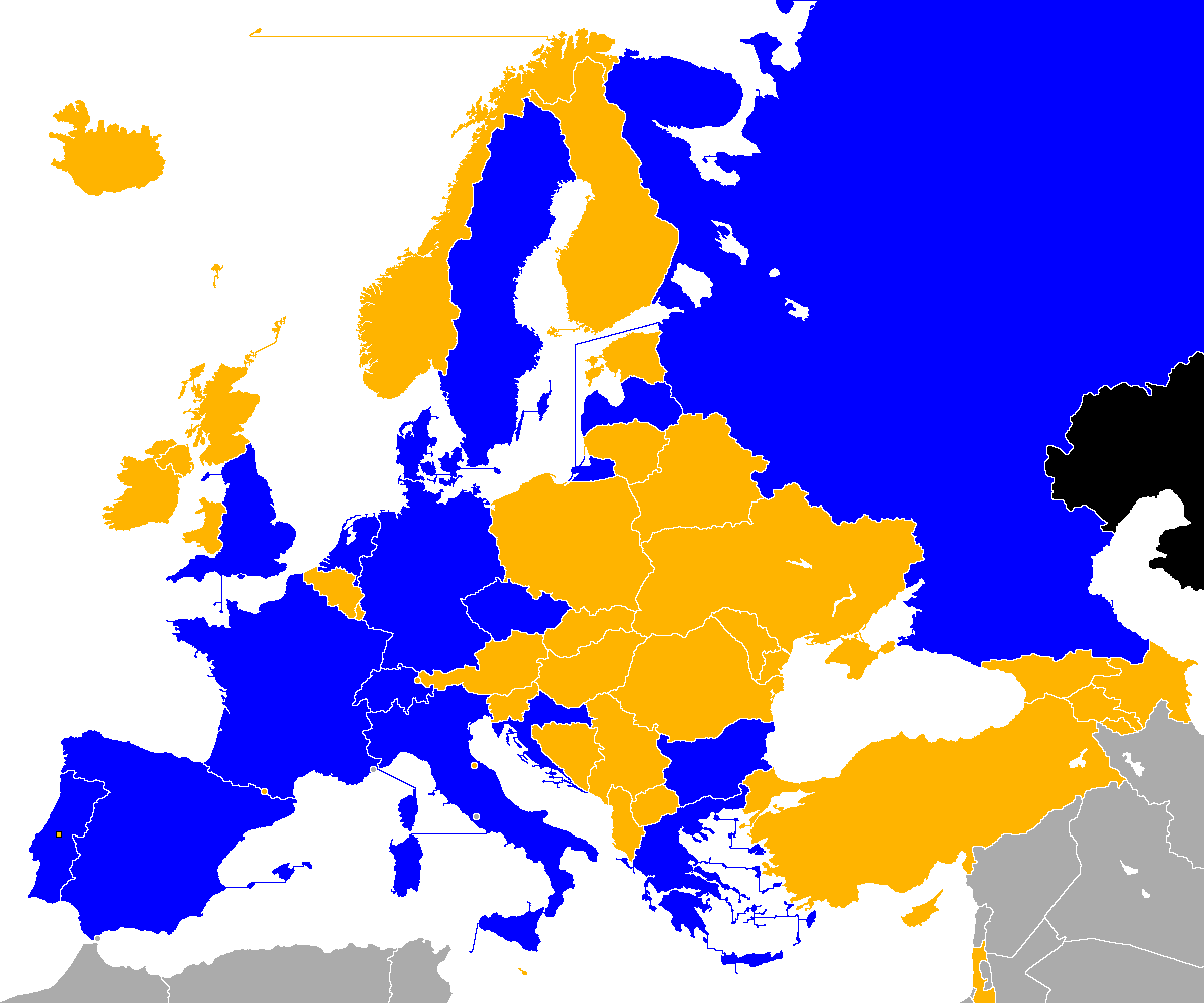 Euro 2004 qualifiers